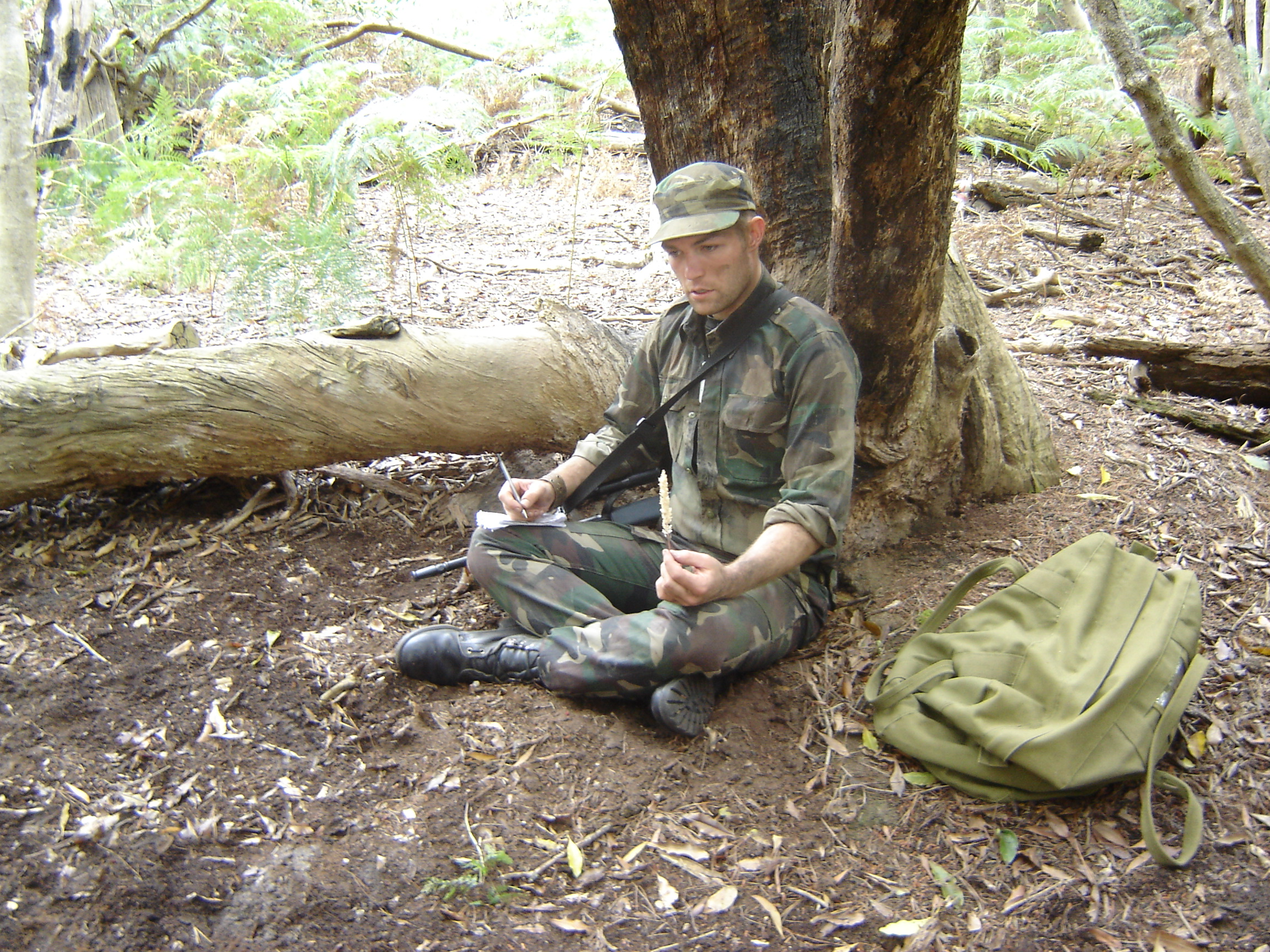 Liam McIntyre on the set of "Niflheim: Blood & Bullets"